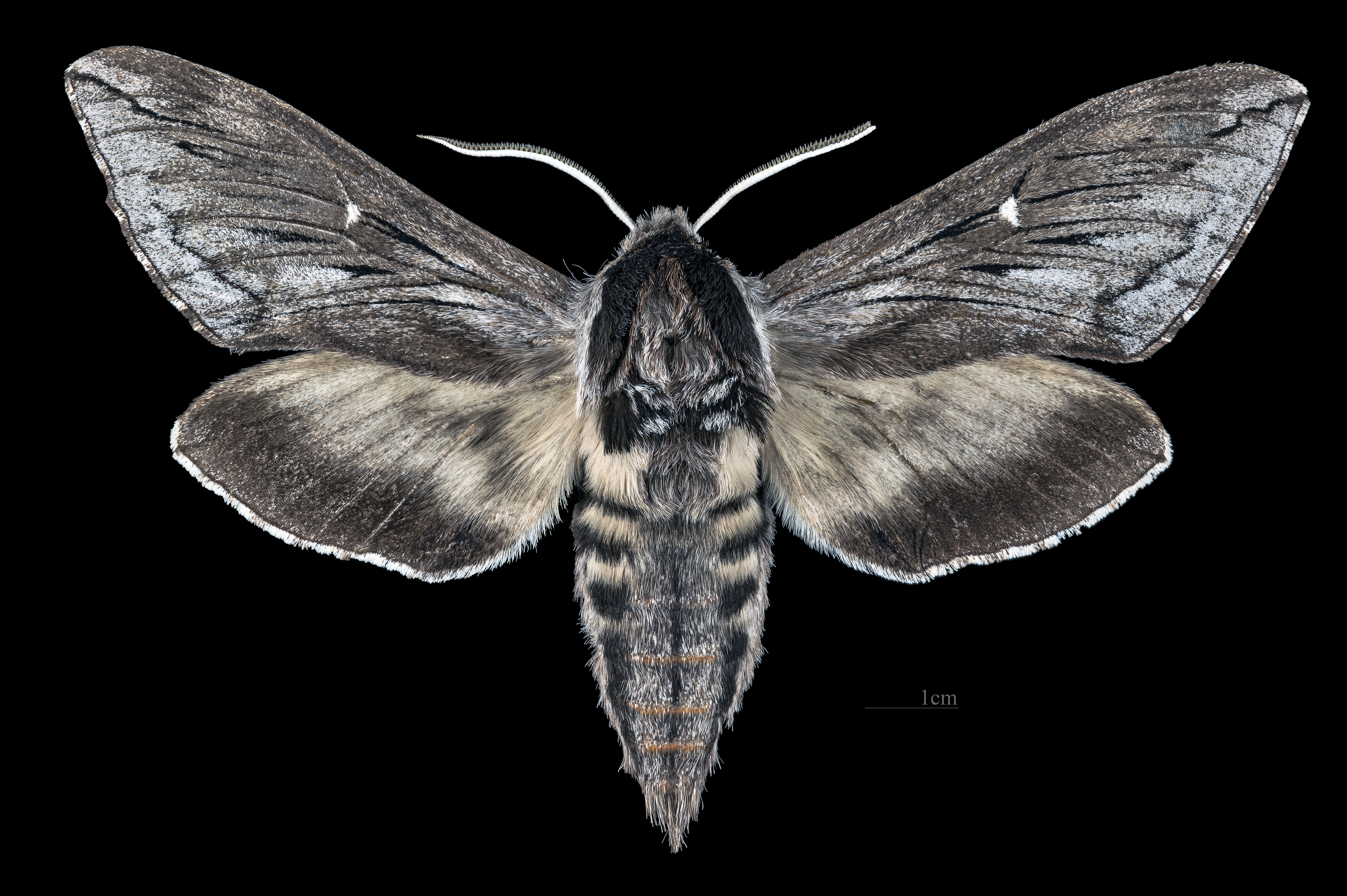 Sphinx gordius - Dorsal side Collection of the Mathematician Laurent Schwartz